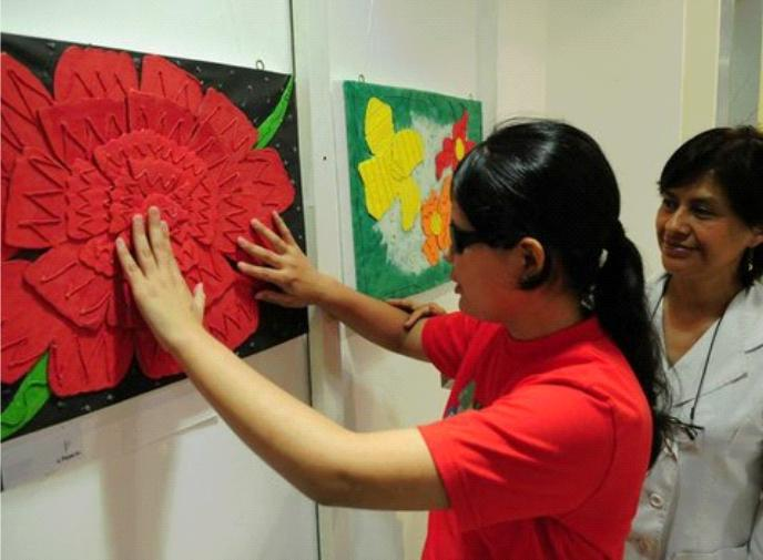 Constanz System: Color identification for blind people